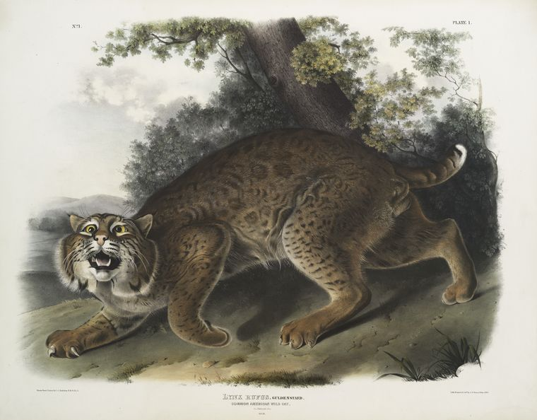 A male Bobcat (Lynx rufus). Plate from The viviparous quadrupeds of North America.